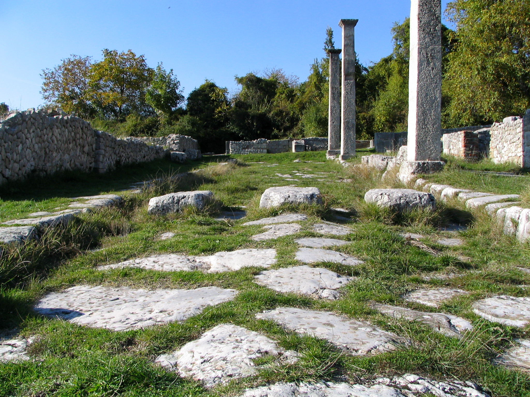 Alba Fucens, Massa d'Albe, Abruzzo, Italiastreet with crossing